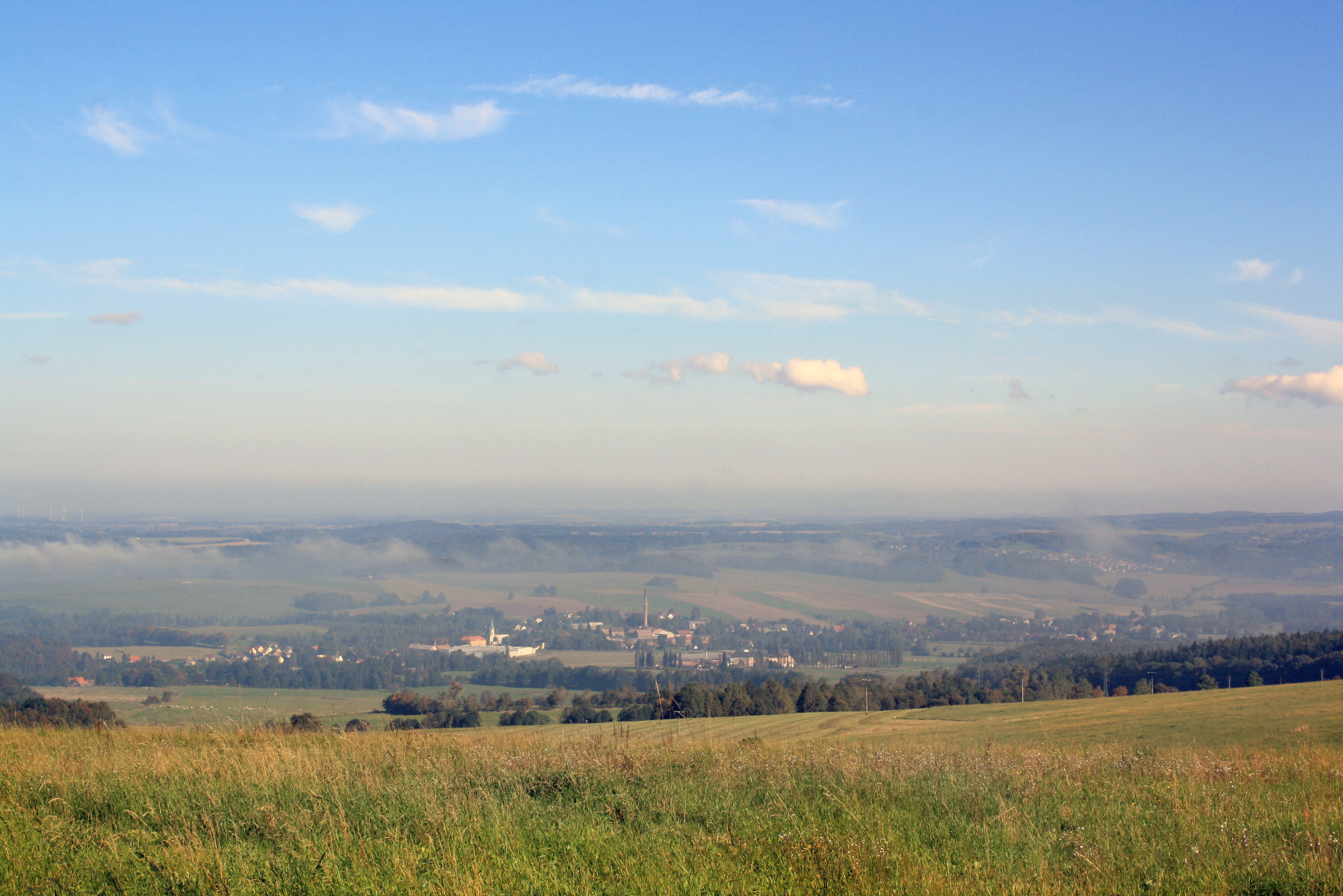 View of Dětřichov from Lysý vrch, Czech Republic